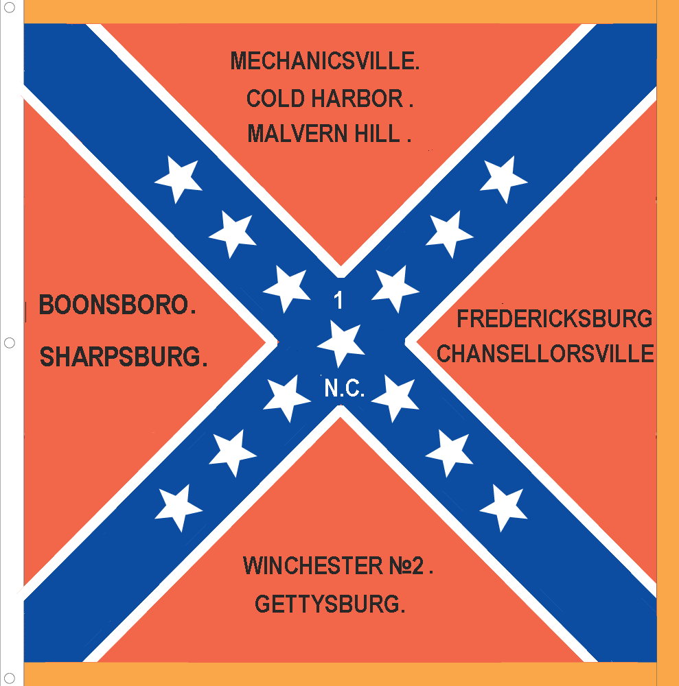 The battle flag of the First Regiment N.C. State Troops. Pvt. John Reams of Northampton County carried the banner into the Battle of Spotsylvania Court House in Virginia in May 1864, where he was captured during hand-to-hand combat.